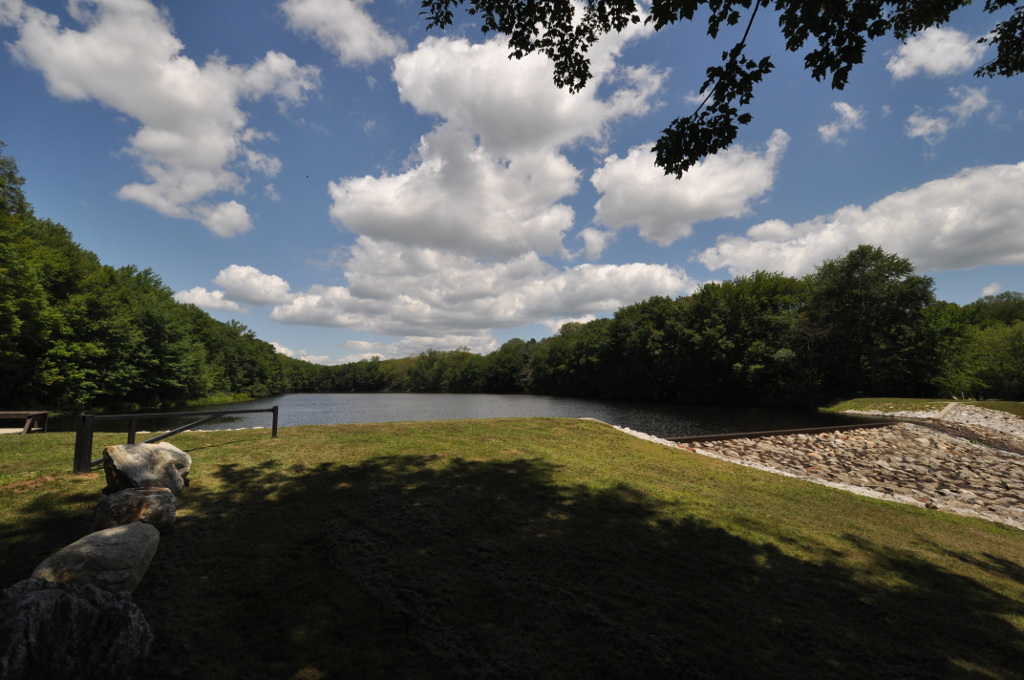 Babbin Pond, Beaver Brook State Park, Windham, Connecticut.